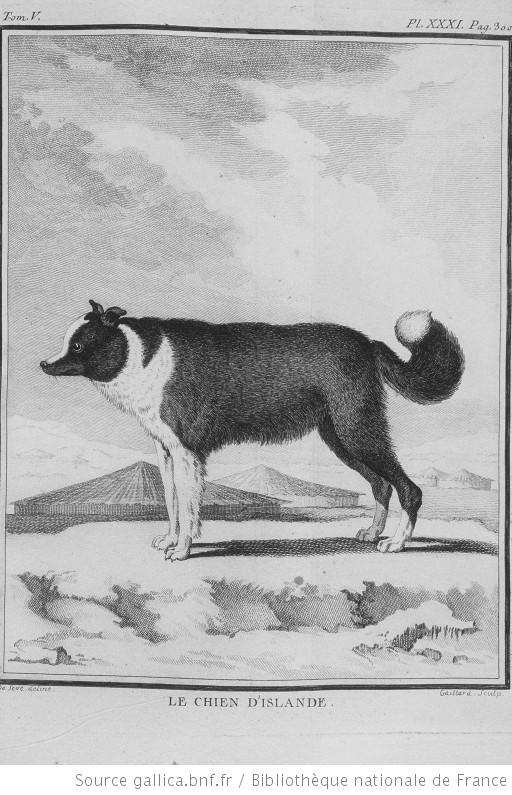 Icelandic Sheepdog